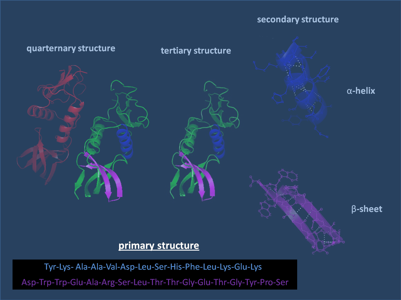 Protein structure with focus on the primary structure